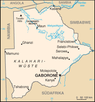 Map of Botswana (CIA World Factbook)